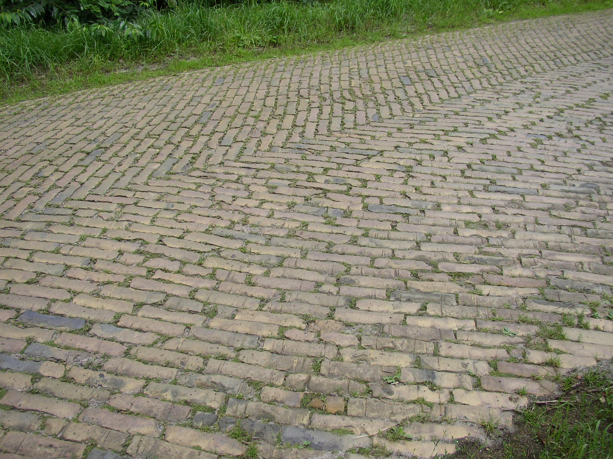 Brick road in Klein Behnitz (district of Nauen) in Brandenburg, Germany